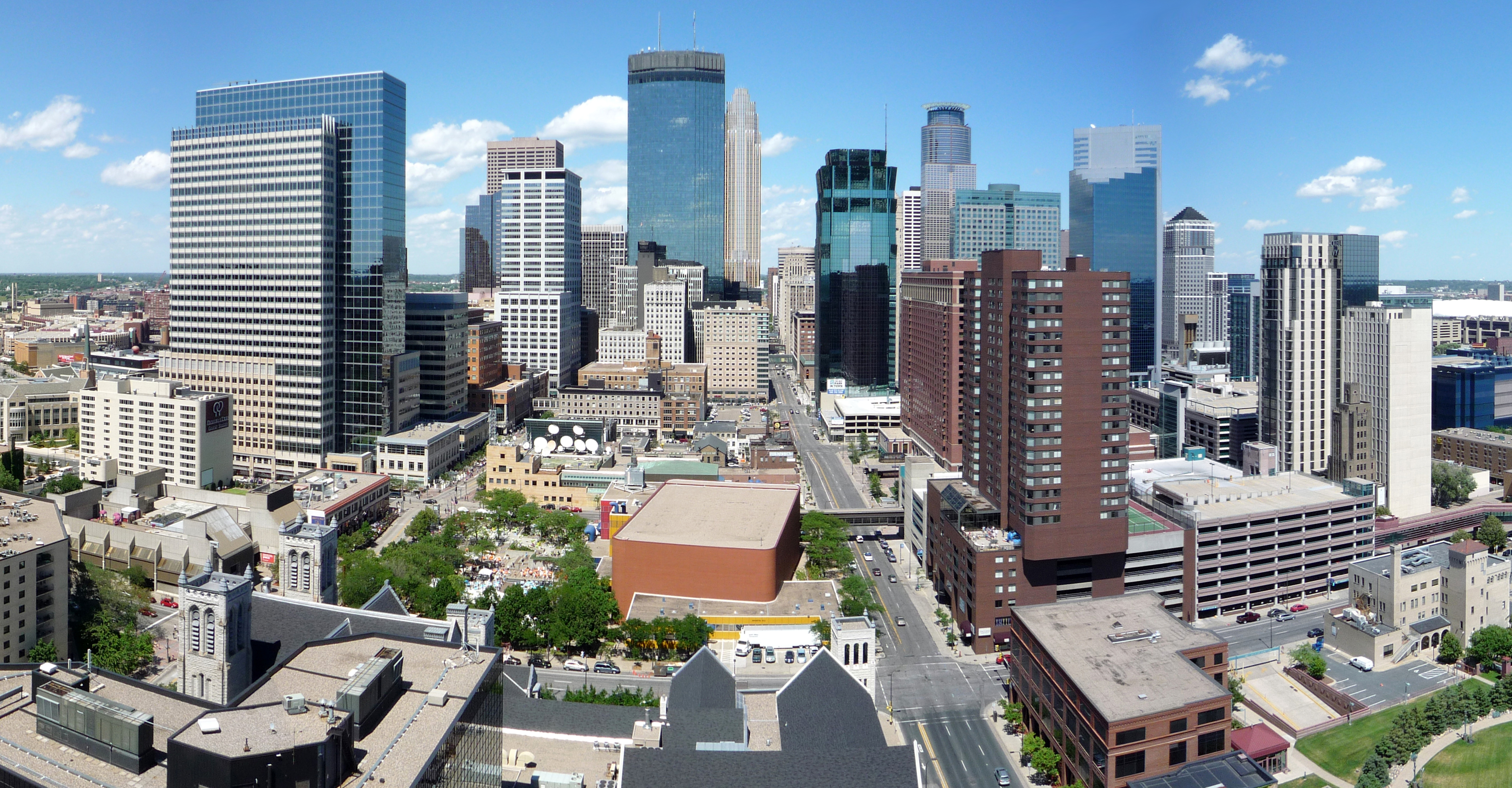 Cropped version of a much wider panoramic photo of downtown Minneapolis, Minnesota made for possible inclusion on a main-page blurb. Among the major buildings and sites visible in this version of the photo, from left to right are: the headquarters office buildings of the Target Corporation; the headquarters office building of U.S. Bancorp; IDS Center; in the foreground of IDS Center are the studios of WCCO-TV, Orchestra Hall, and Westminster Presbyterian Church; back on the skyline, Wells Fargo Center; Capella Tower; visible in the foreground below-right is the back of the Architects and Engineers Building.